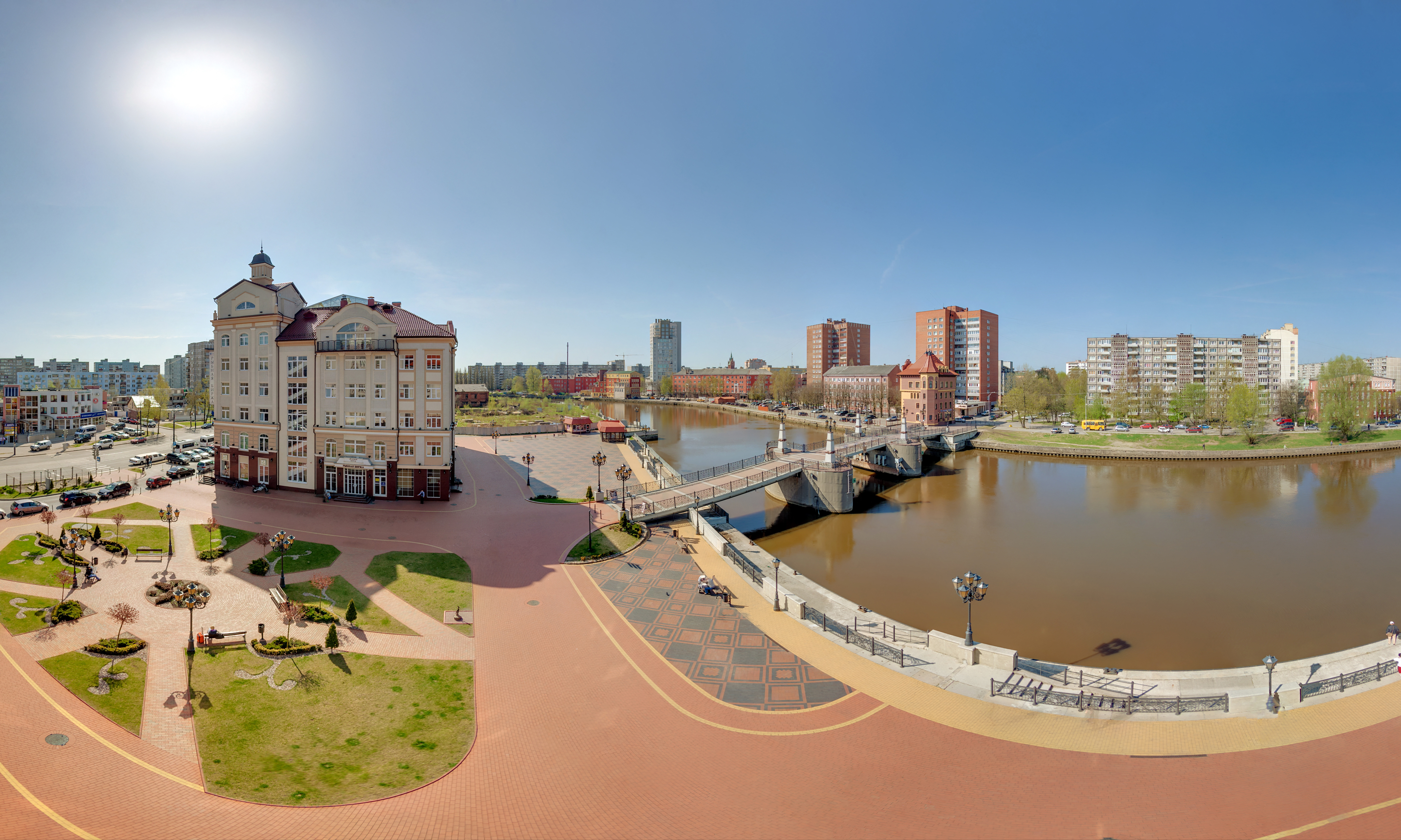 Business Centre "Fish Stock", a drawbridge across the Pregolya River “Ubileyny”, Kaliningrad